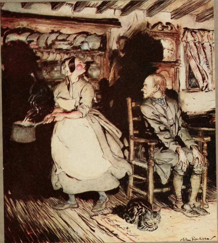 Arthur Rackham's illustration of the folk ballad "Get Up and Bar the Door"